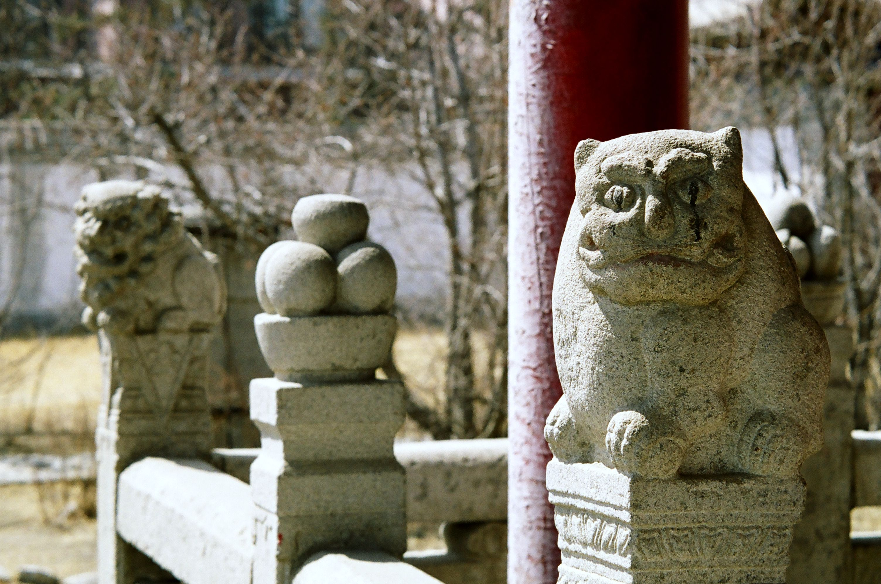 Choijin Lama Monastery, Ulan Bator, Mongolia